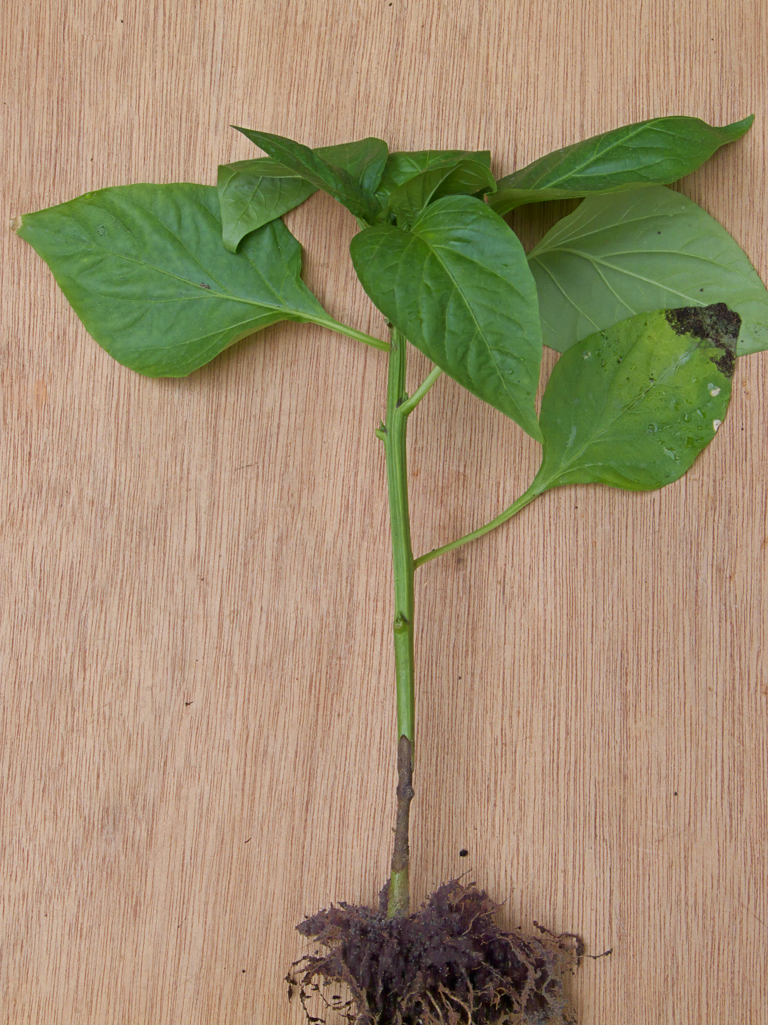 Capsicum annuum Bell pepper Rhizoctonia solani